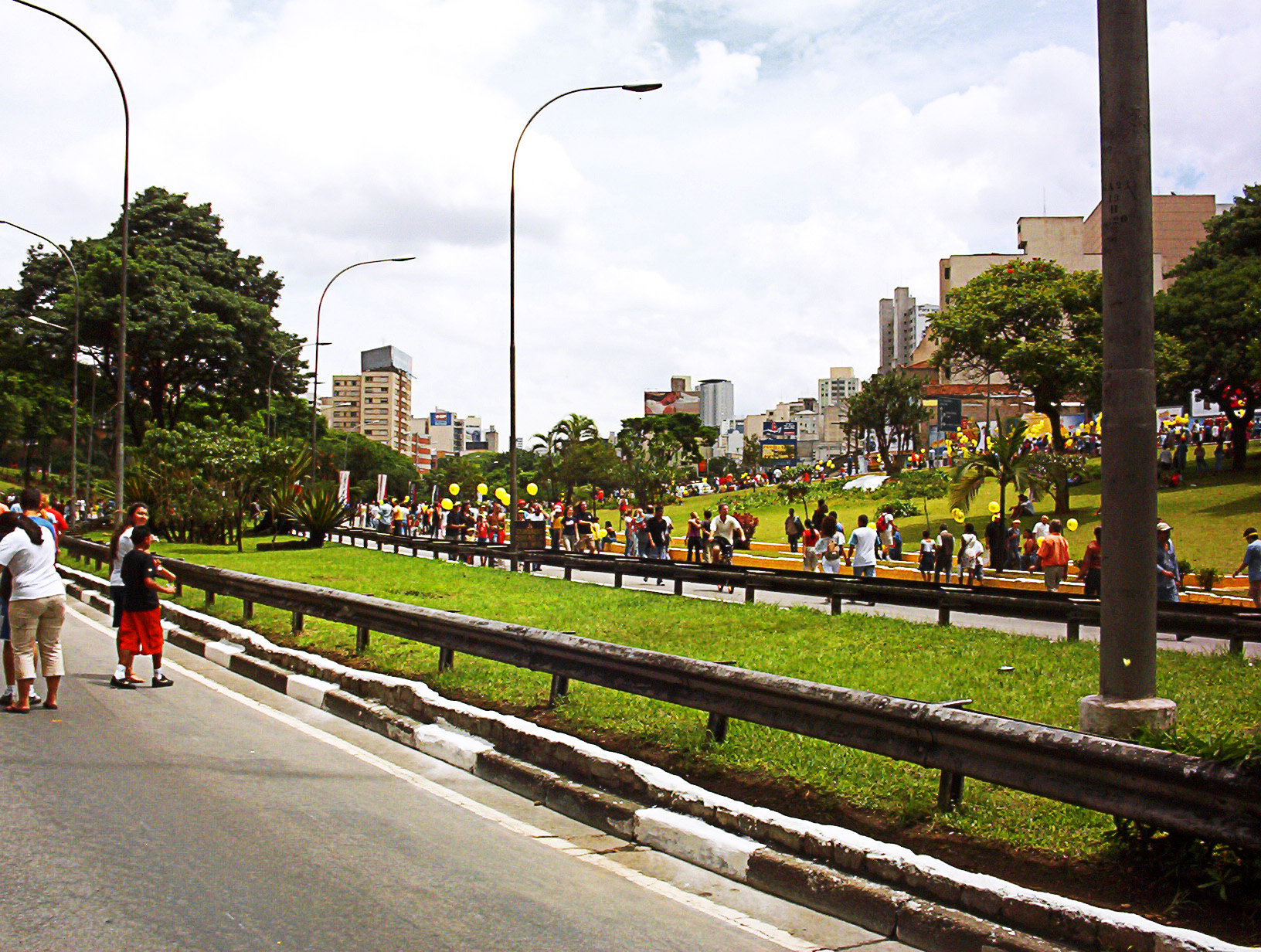 Celebrations for São Paulo's 450th anniversary closed Avenida Vinte e Três de Maio to vehicles, and pedestrians could walk through almost all the avenue's length.